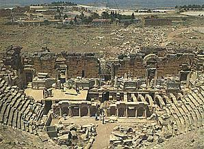 Theatre in Hierapolis